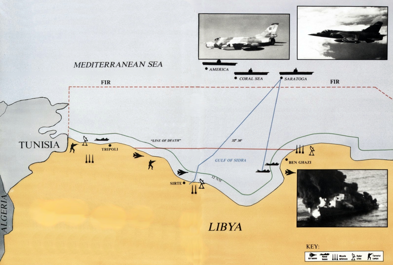 U.S. Navy chart showing operations of the aircraft from the aircraft carrier USS Saratoga (CV-60) during "Operation Attain Document III", 23 to 29 March 1986. "FIR" stands for (Tripoli) "Flight Information Region". The photos show a Libyan Sukhoi Su-22, a Dassault Mirage F.1 and a Libyan missile boat after having been attacked by U.S. Navy aircraft. Note: The map does not show the real geographical outlines!